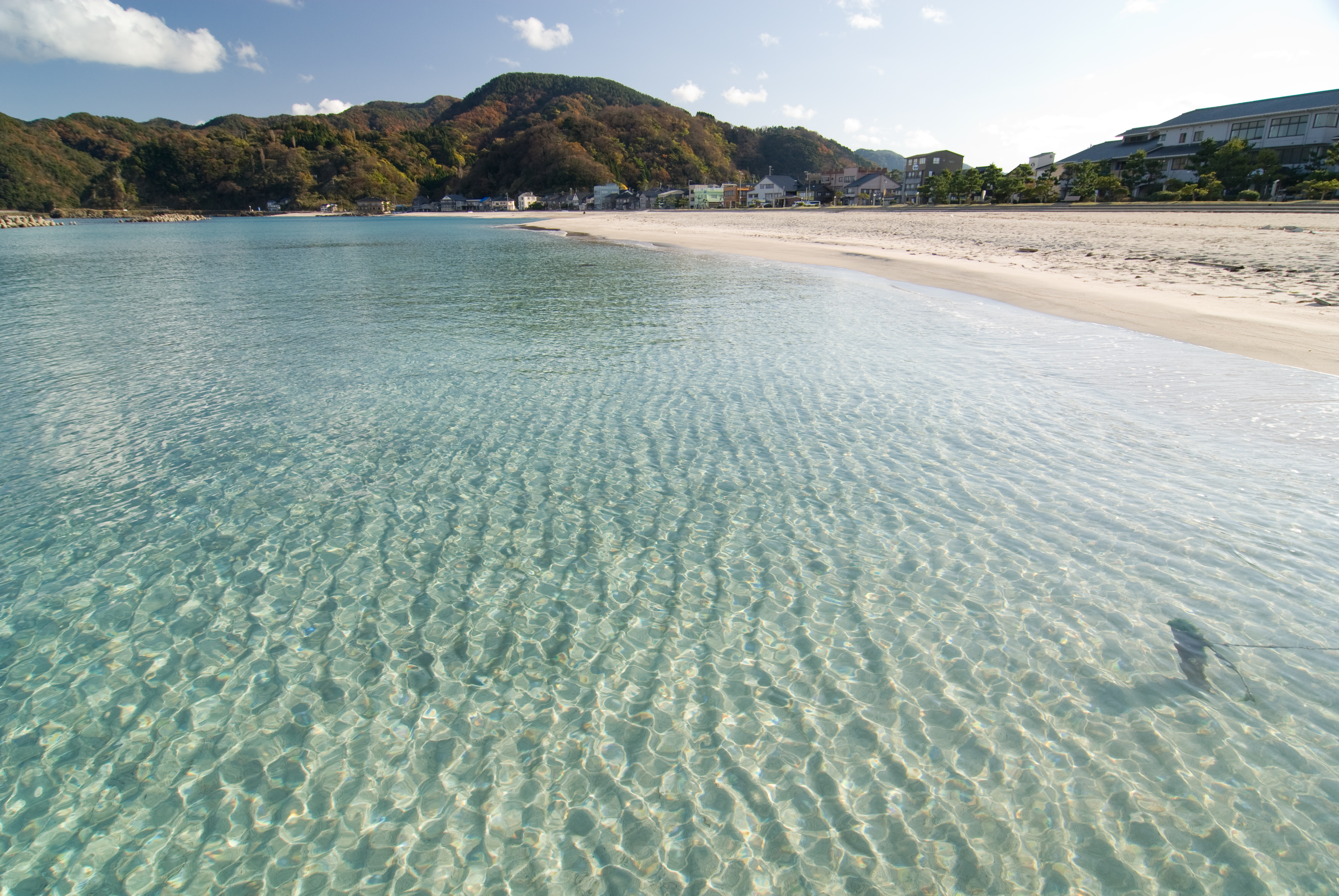 Takenohama Beach in Toyooka, Hyogo prefecture, Japan.